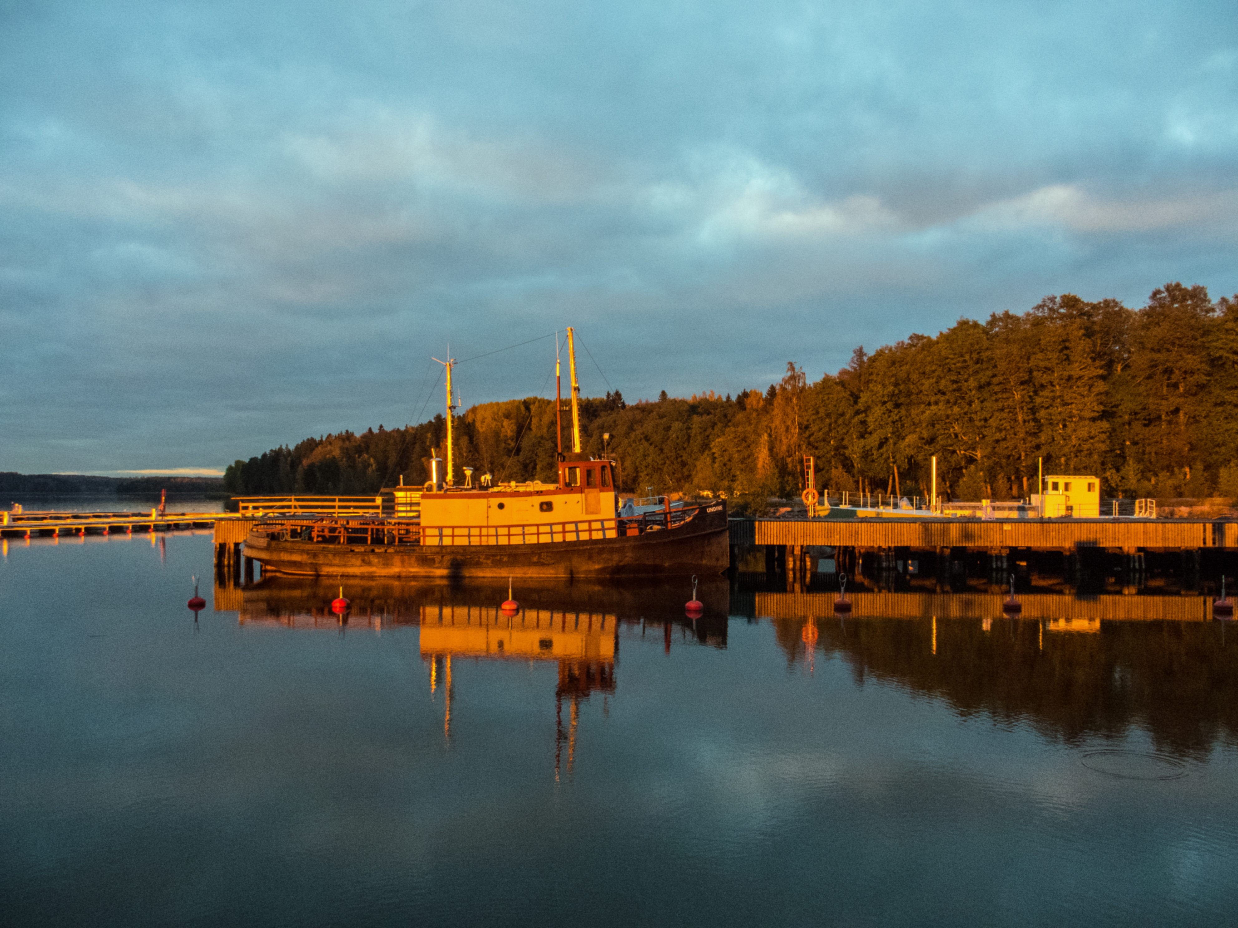 October sunset in Matildedal village, Perniö, Salo, Finland.